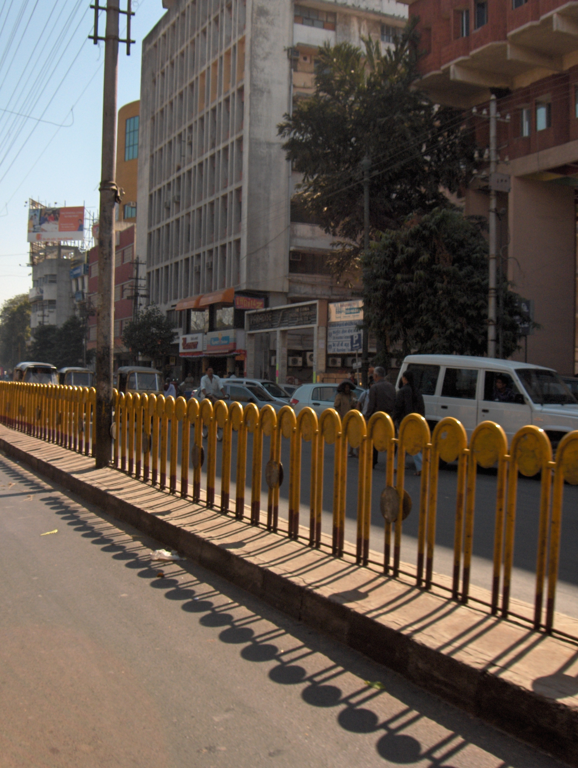 Vadodara in Gujarat, India Pic taken by me, Nichalp on 26-Jan-2006